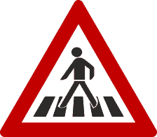 Diagram of road signs of Luxembourg